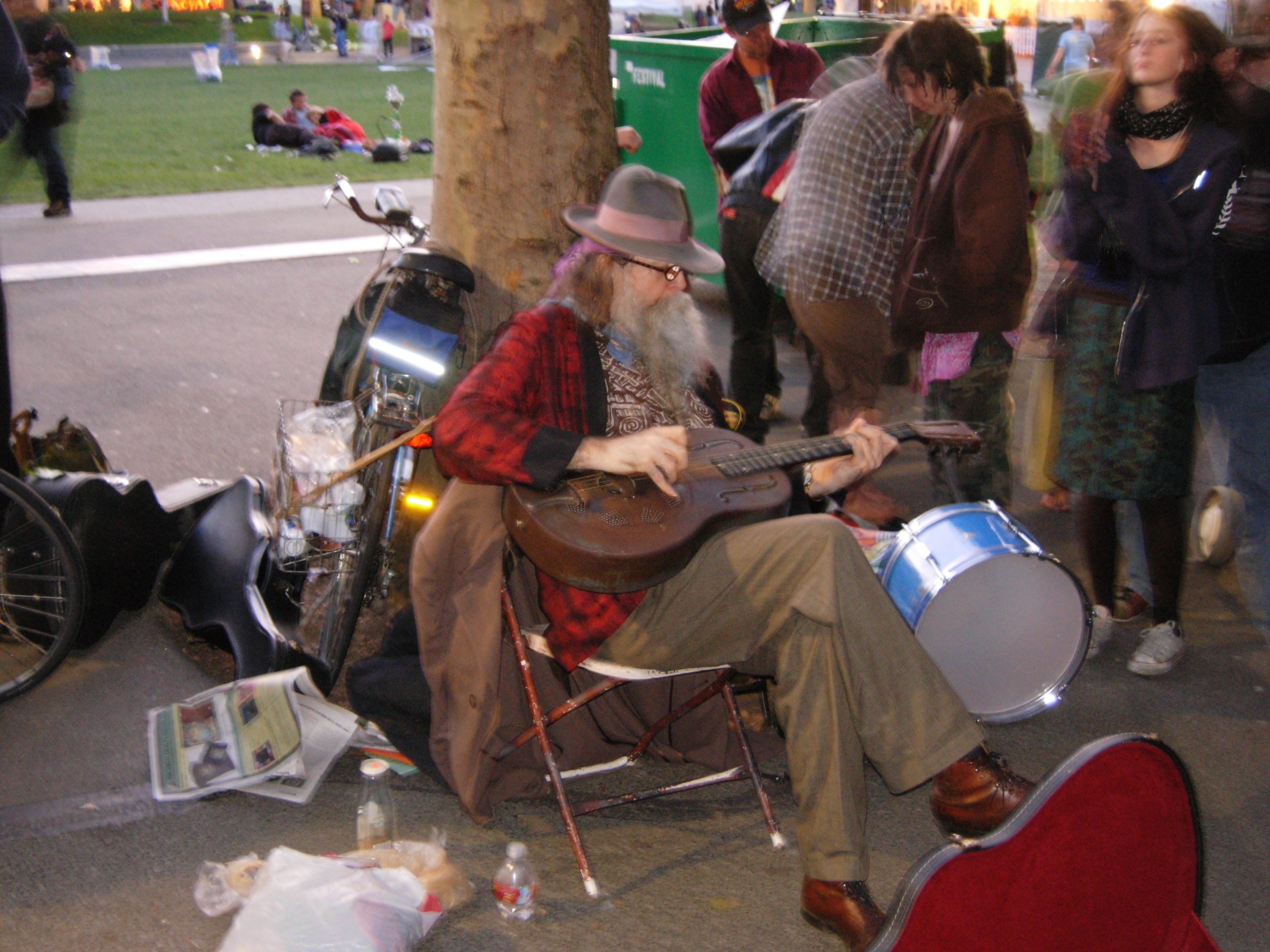 Baby Gramps busking at the Northwest Folklife Festival